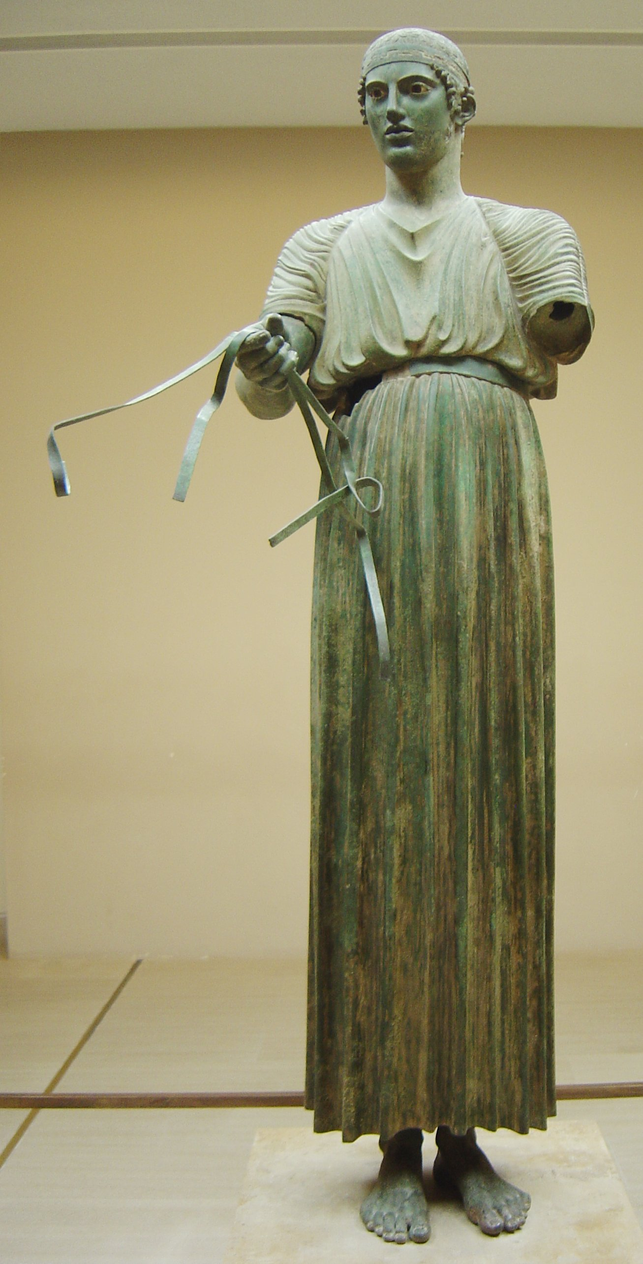 Statue of a charioteer found in Delphi, Greece (front) most probably a chariot driver in the Pythian Games The driver ran for the horses' owner, Polyzalos, tyrant in Sicily between 480-470BC.